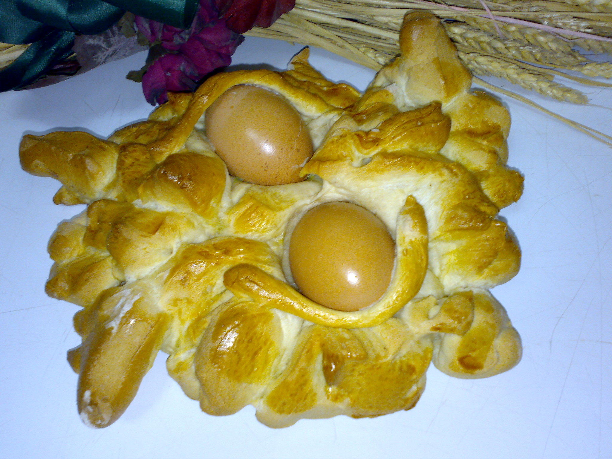 Coccoi cun s'ou: typical bread for Easter in Sardenia – Italy.